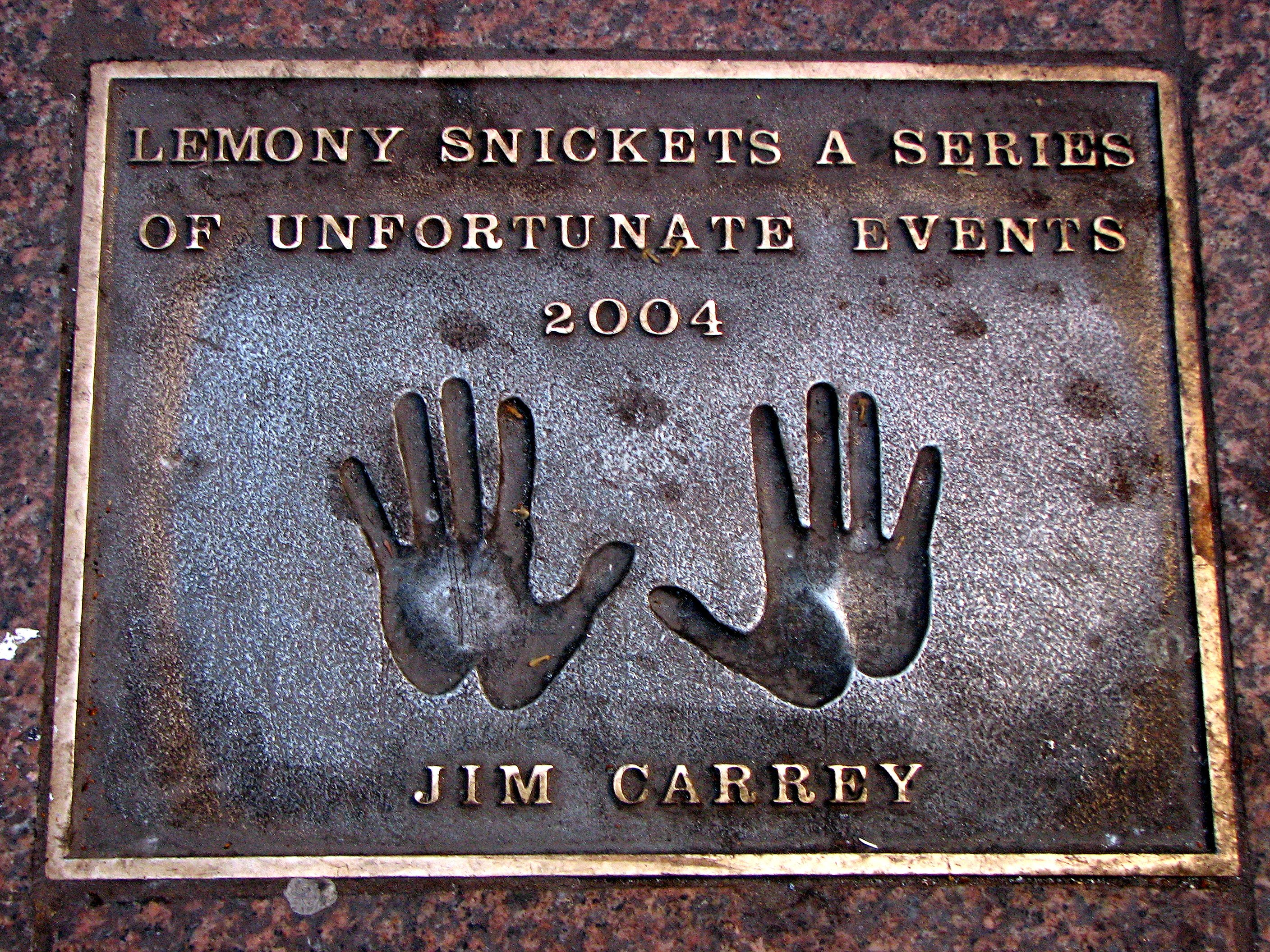 Jim Carrey's handprints, looking like cartoon hands, on London's Leicester Square.